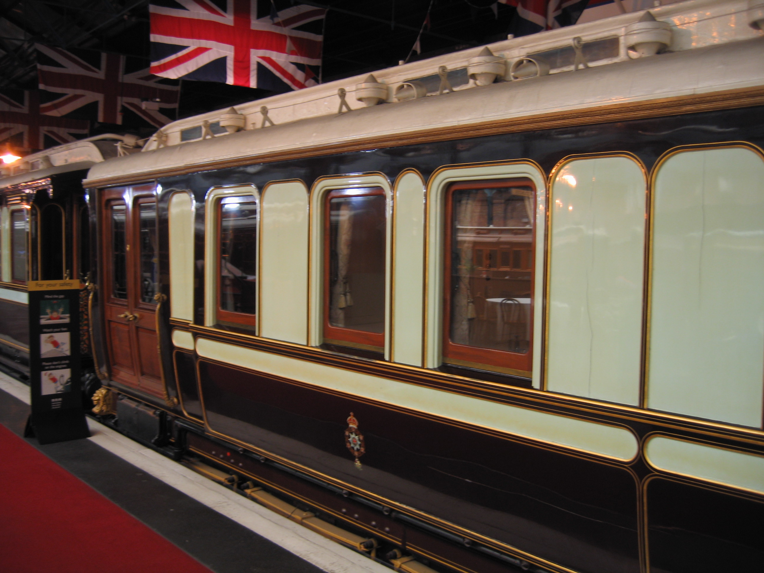 Saloon of Edward VII, National Railway Museum, York